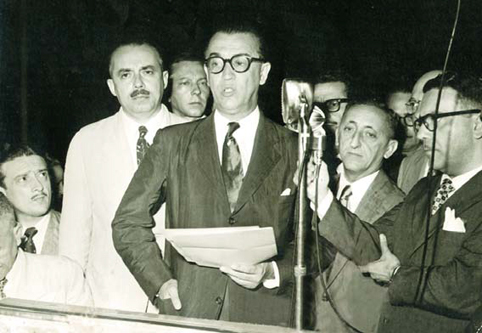 Isaac Benayon Sabbá with Presidente JK at the inauguration of Remaan. Isaac Sabbá is the shortest man, behind the president